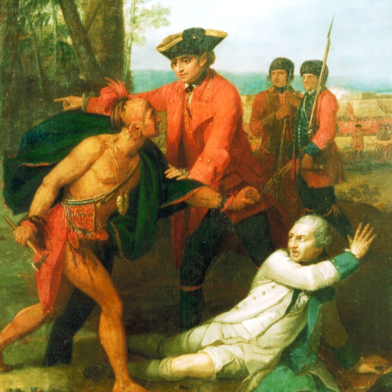 DYK SQ by Benjamin West (detail of this)